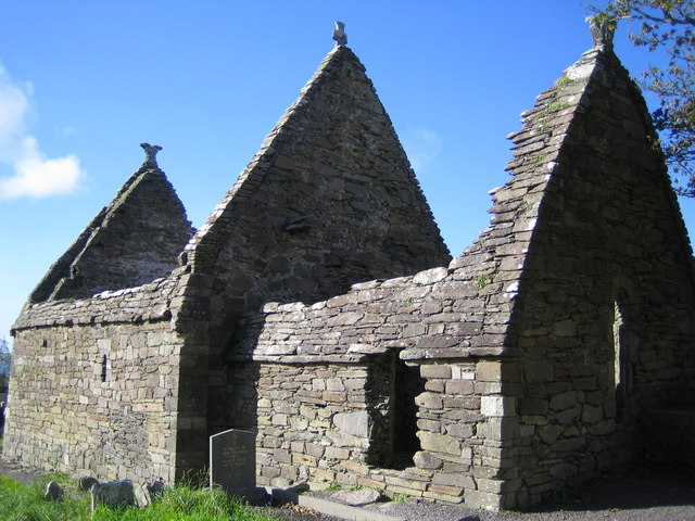 Cill Mhaoilchéadair (Kilmalkedar) Church The east and south façades of the ruined church showing the Irish Romanesque twelfth century nave and the slightly later chancel.